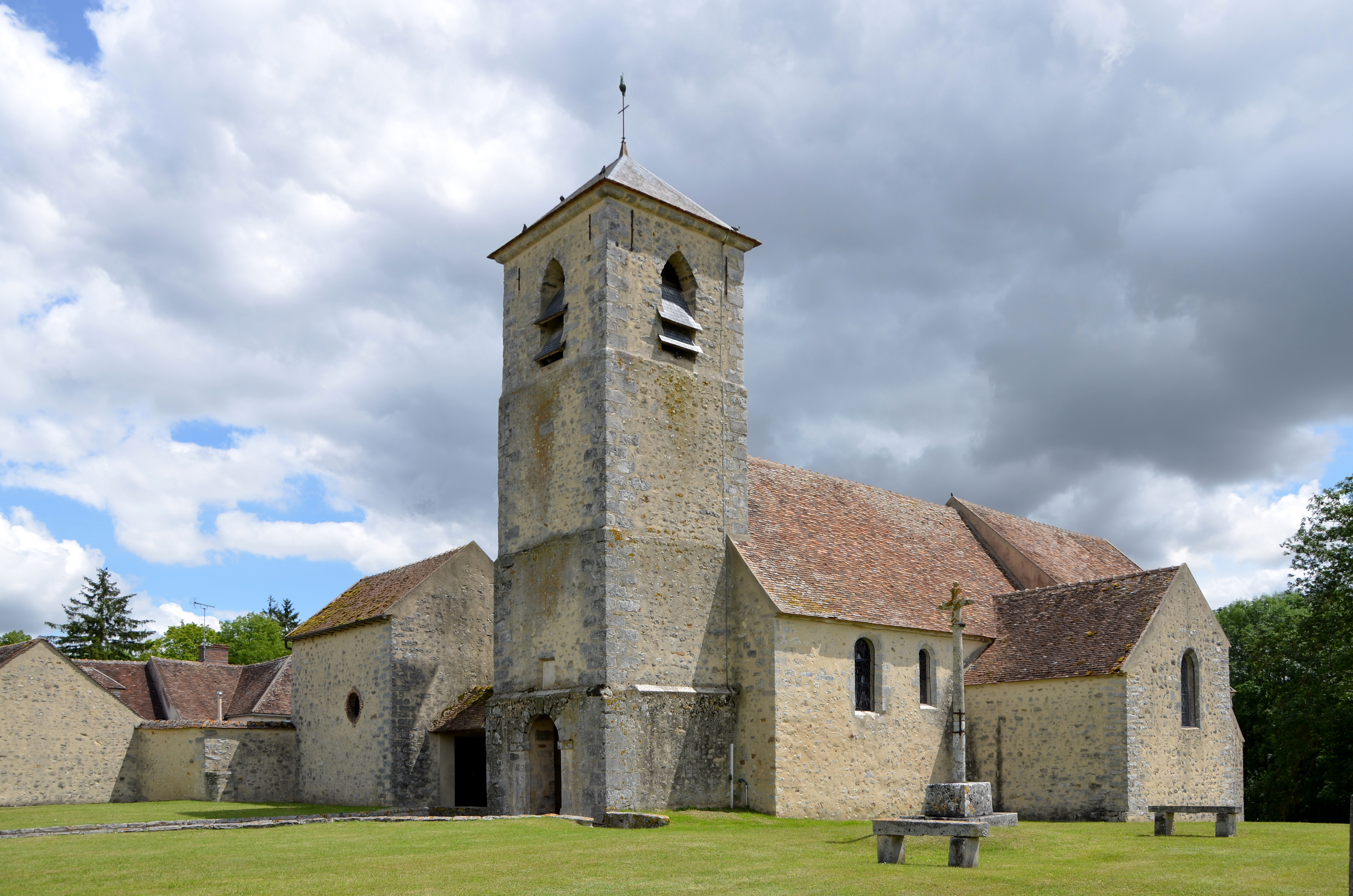 Church Saint-Michel in Nonville, Seine et Marne, France